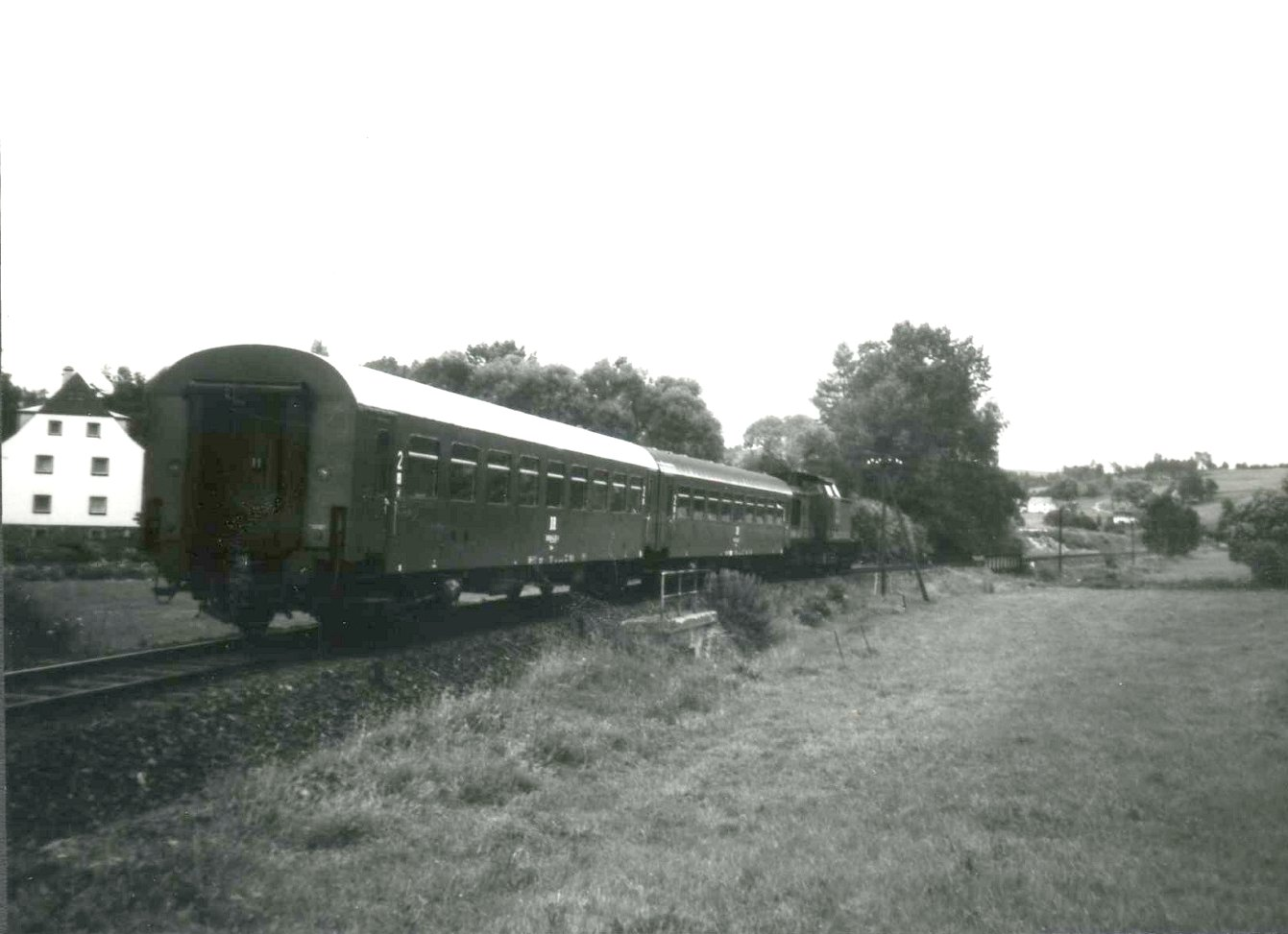 Opened 1895, no longer in operation, being a branch from Pockau -Lengefeld to Neuhausen. This 2-carriage personenzug is being pulled by one of the then ubiquitous Class 202 diesel locomotives of Deutsche Reichsbahn.